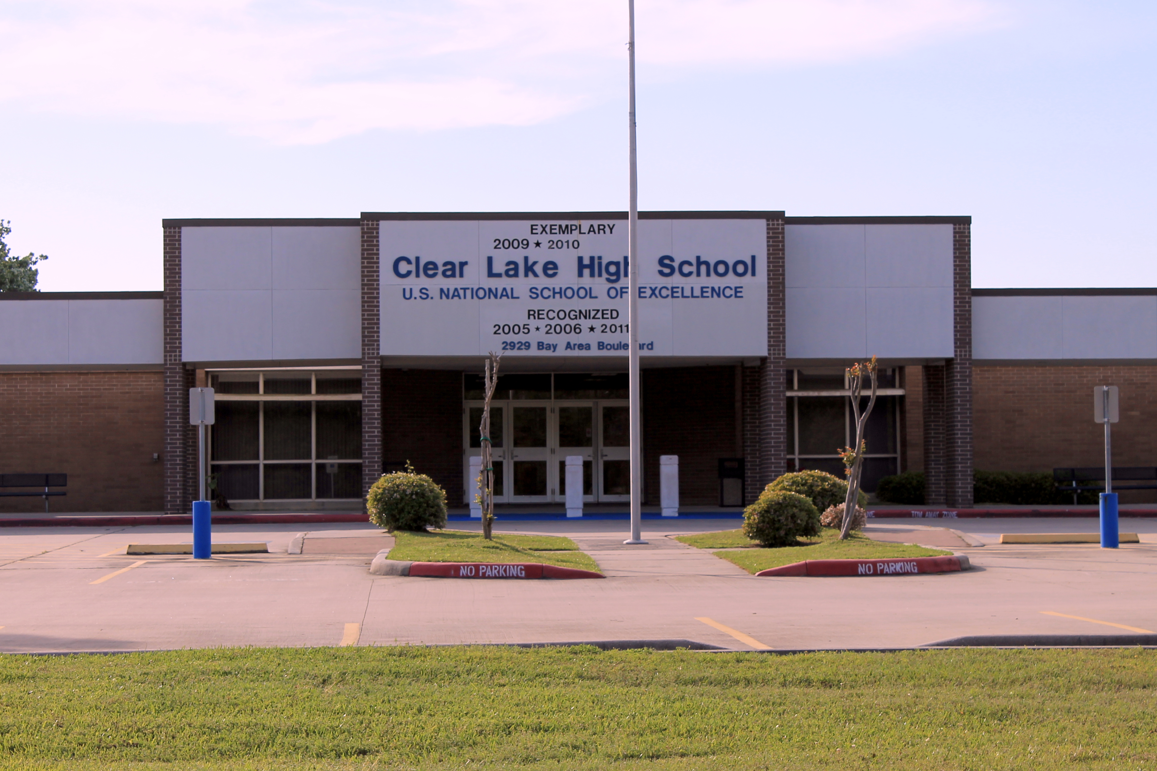 The entrance to Clear Lake High School in Houston, Texas in March 2014.